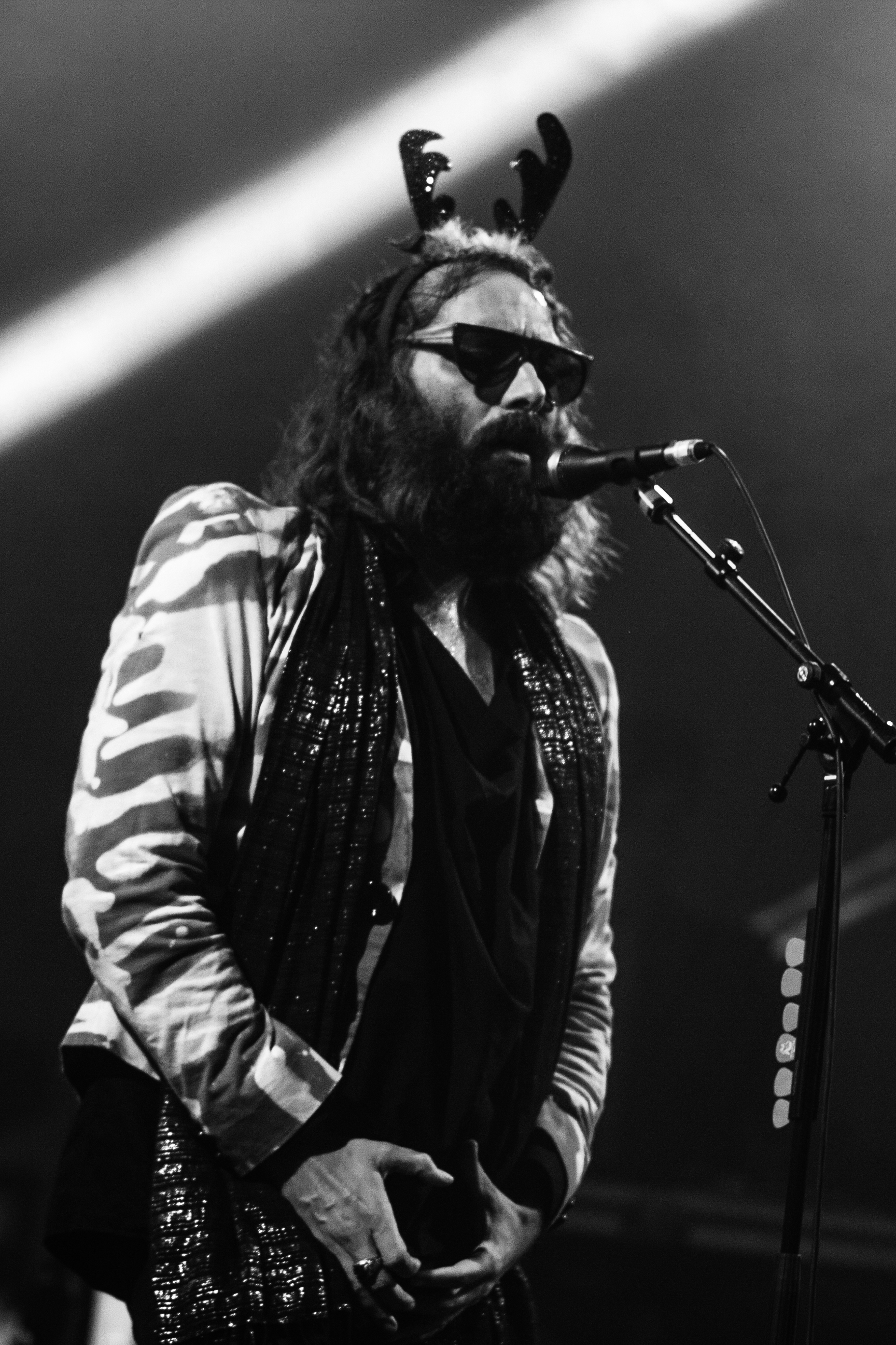 Follow me on facebook Twitter : @didyPhotography All the photographies I've made are now under CC0 (Creative Commons Zero) CC0 - learn more To the extent possible under law,Eddy BERTHIERhas waived all copyright and related or neighboring rights to Sébastien Tellier @ Dour 2012.This work is published from:France.